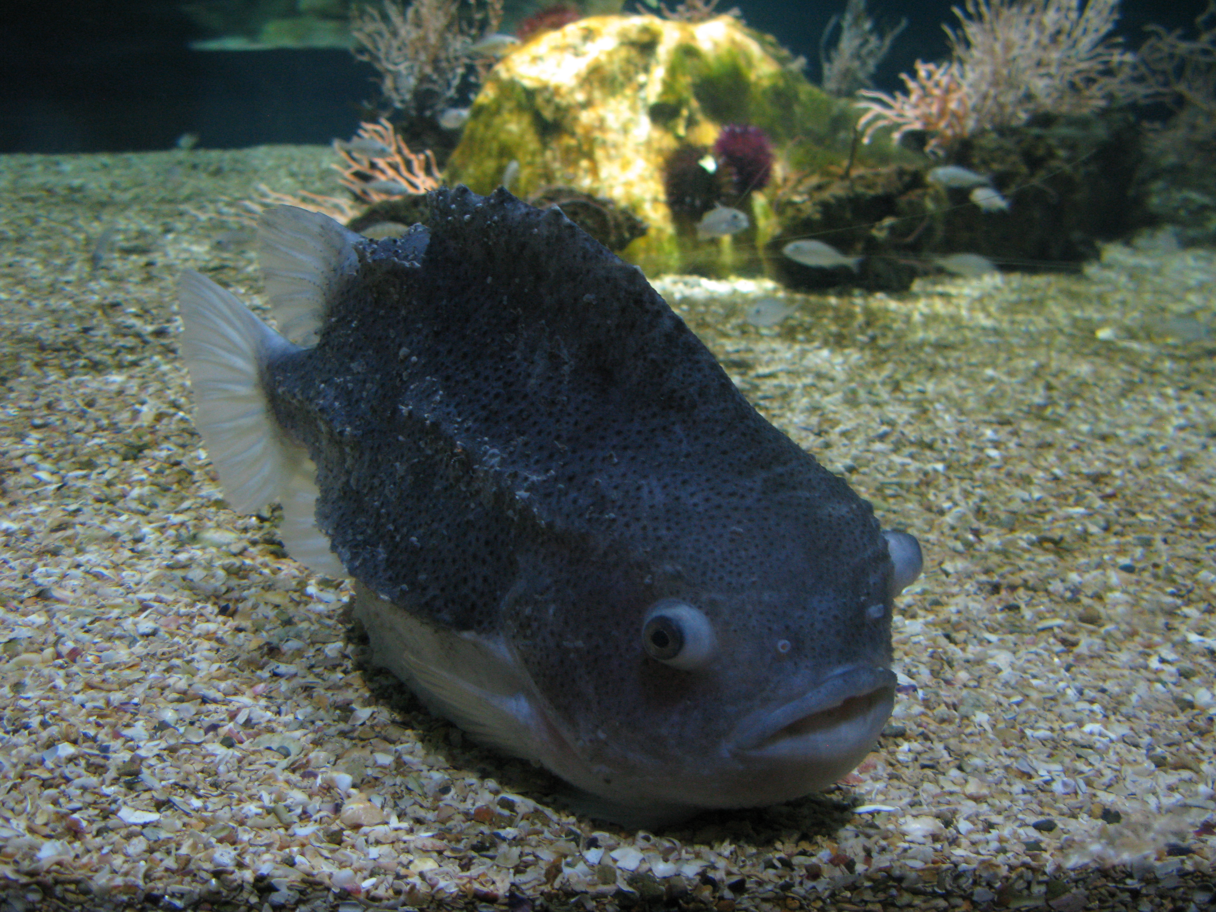 Lumpfish (Cyclopterus lumpus), at Dorée Tropical Aquarium, Paris.